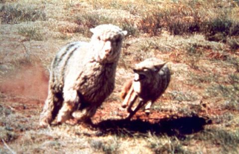 Coyote attacking adult domestic sheep